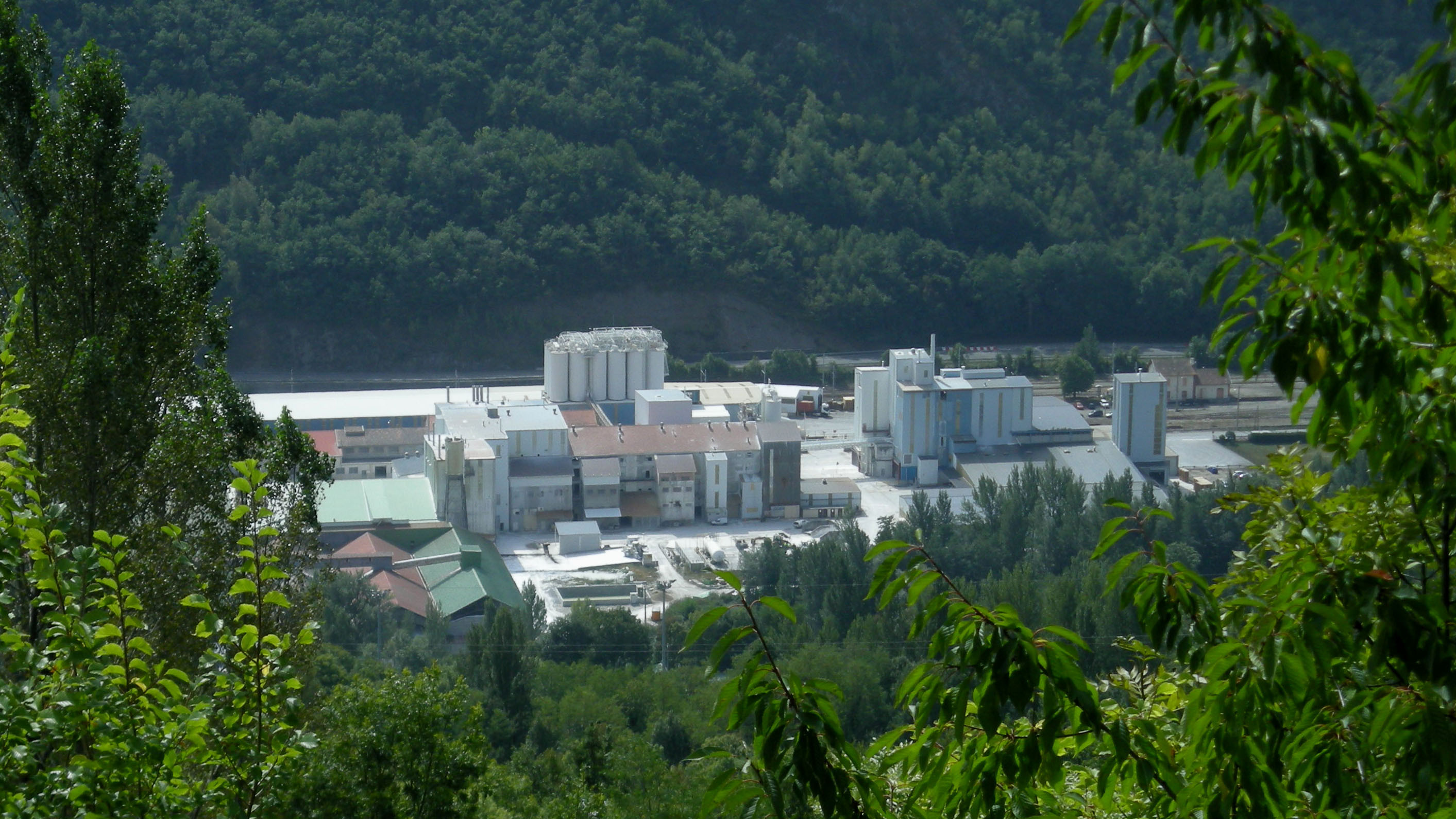 Talc factory (Luzenac, Ariège)